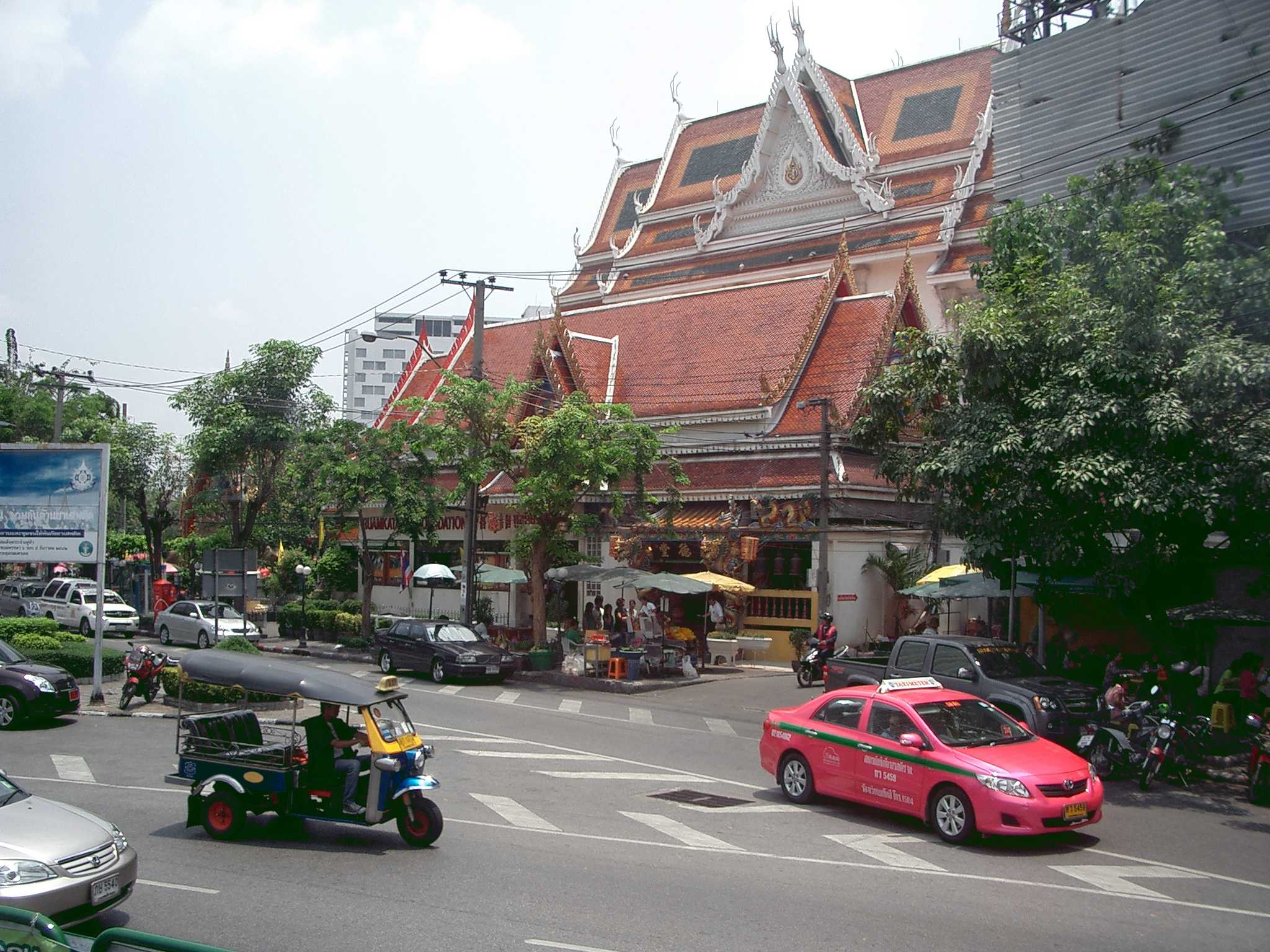 Wat Hua Lamphong, Ruamkatanyu Foundation, Rama 4 Road, Bangkok, Thailand